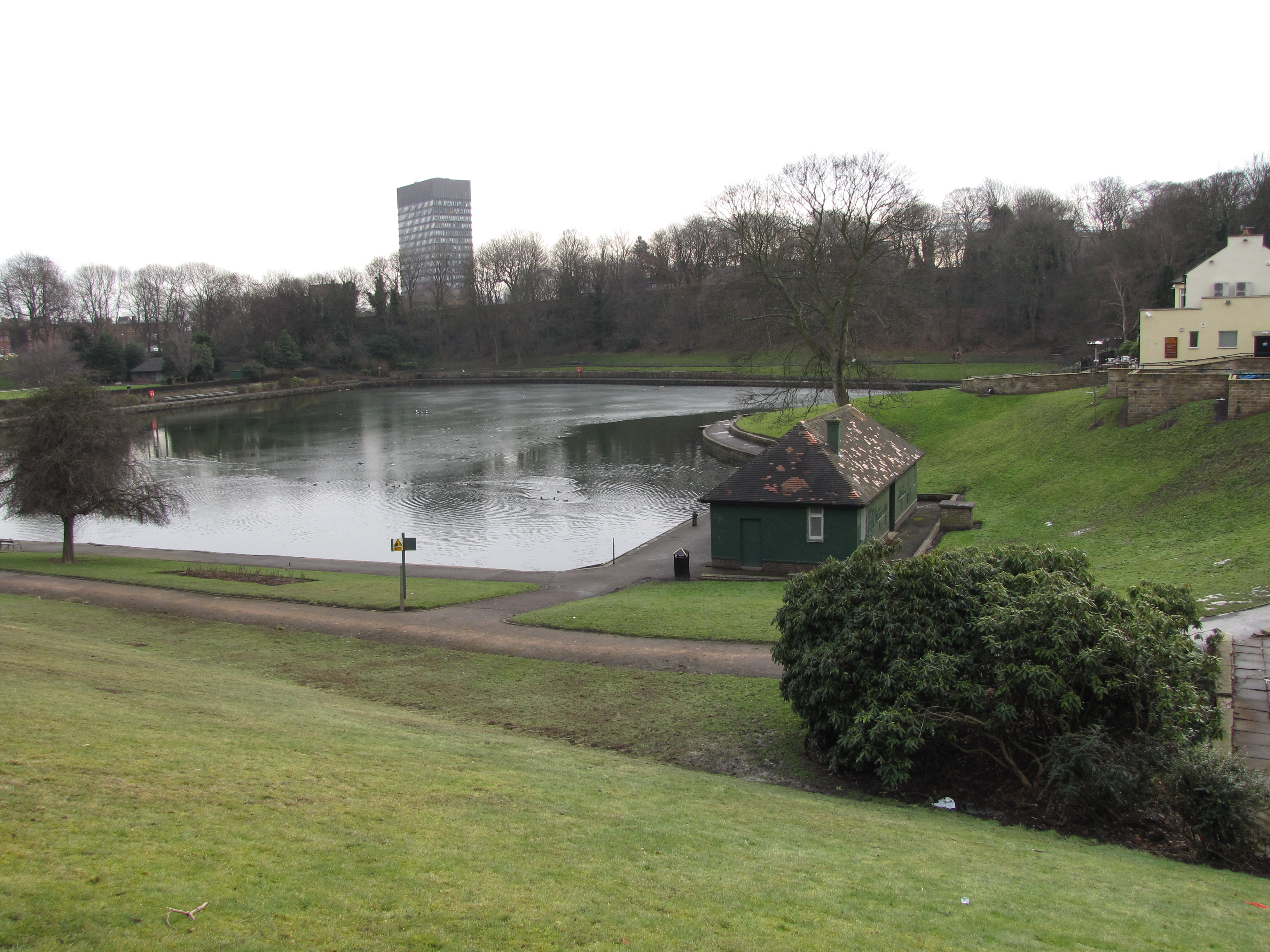 Crookes Valley Park in Sheffield, England